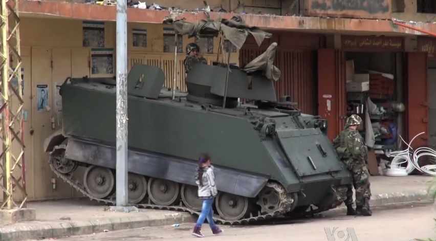 2011–present conflict in Lebanon